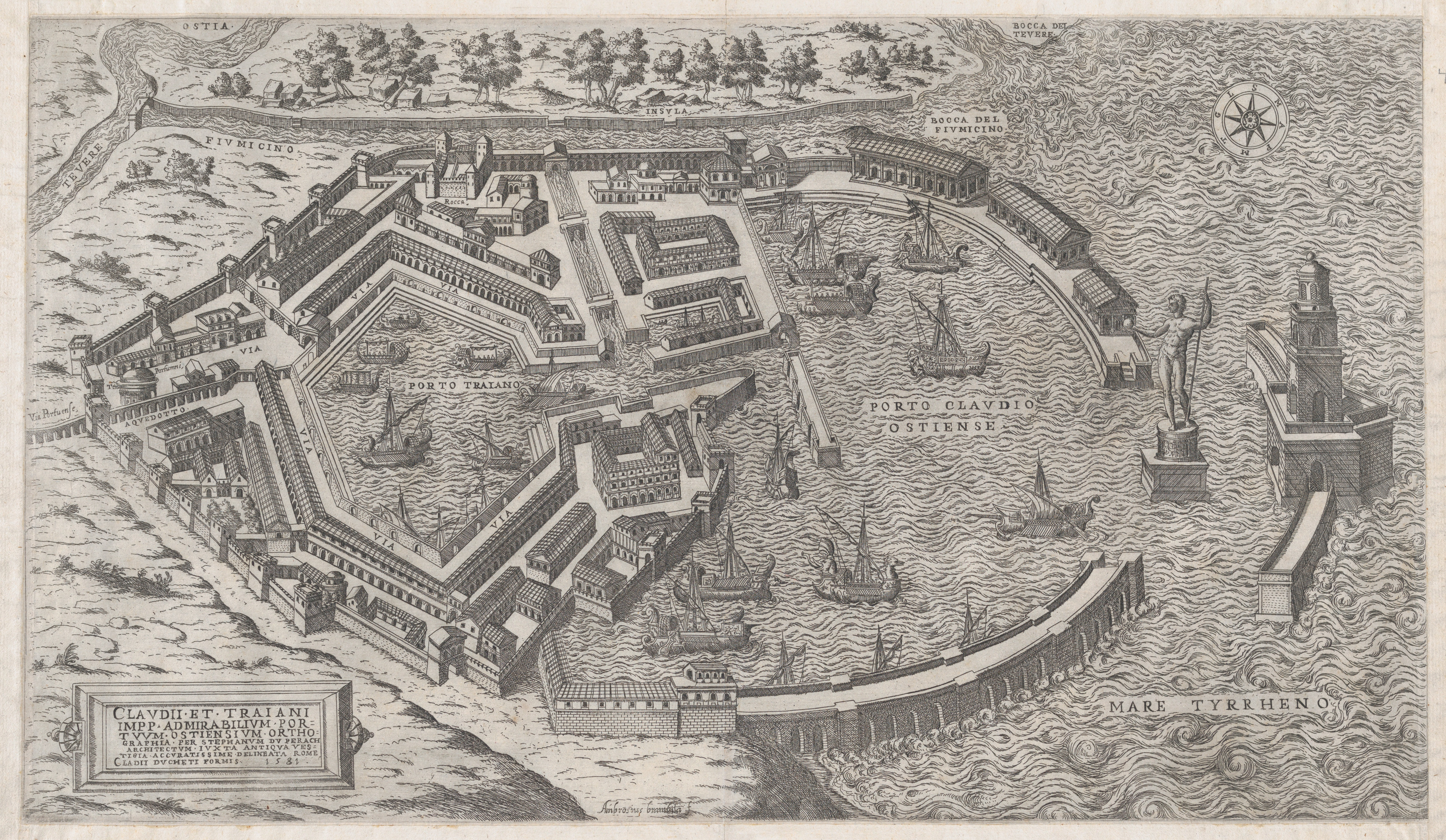 Print; Prints